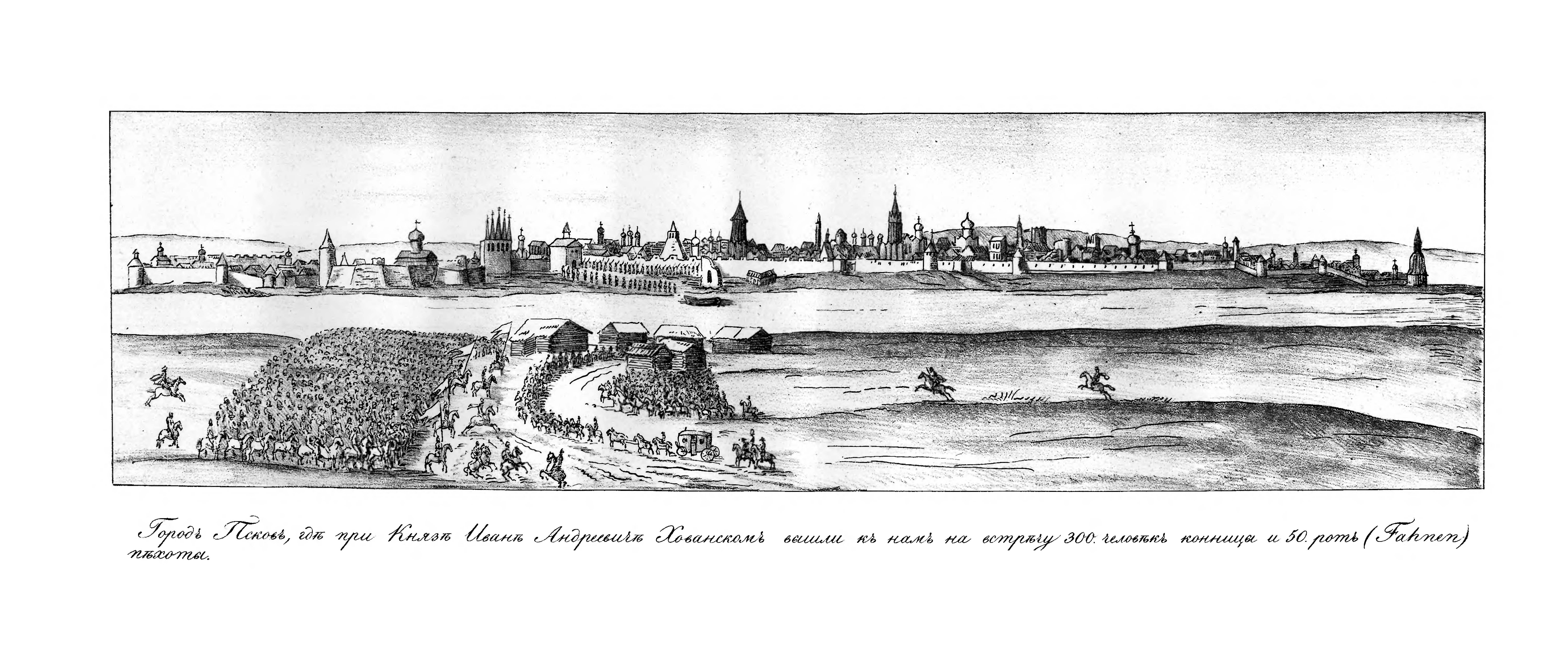 This is picture of Pscov in 1661 year. Picture was made by austrian diplomat baron Augustus Mayerberg during his travel to Russia.